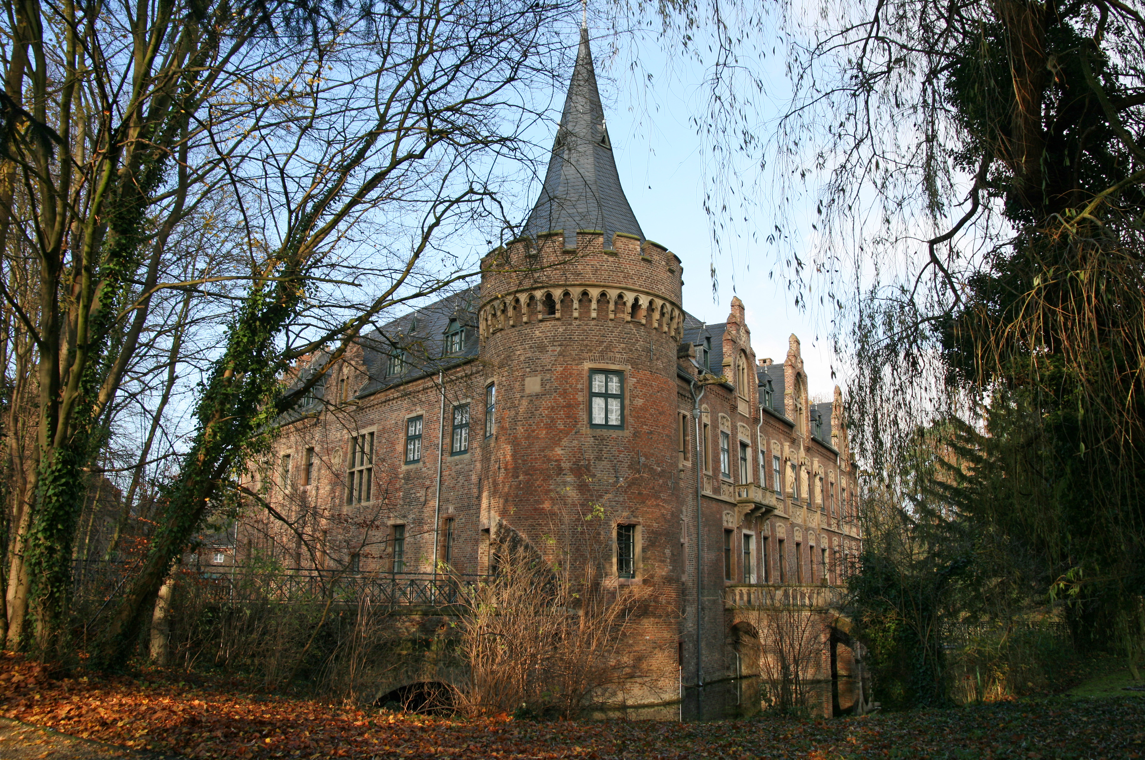 Paffendorf Castle, south-eastern aspect